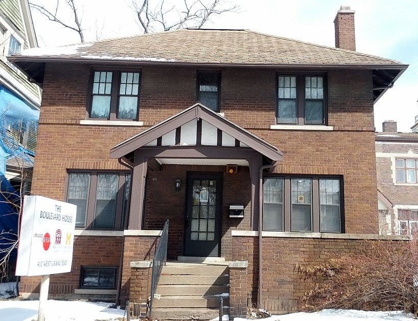 A photo of the Boulevard House.